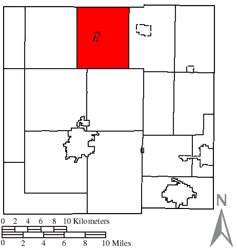 Made by the US Census and modified by myself